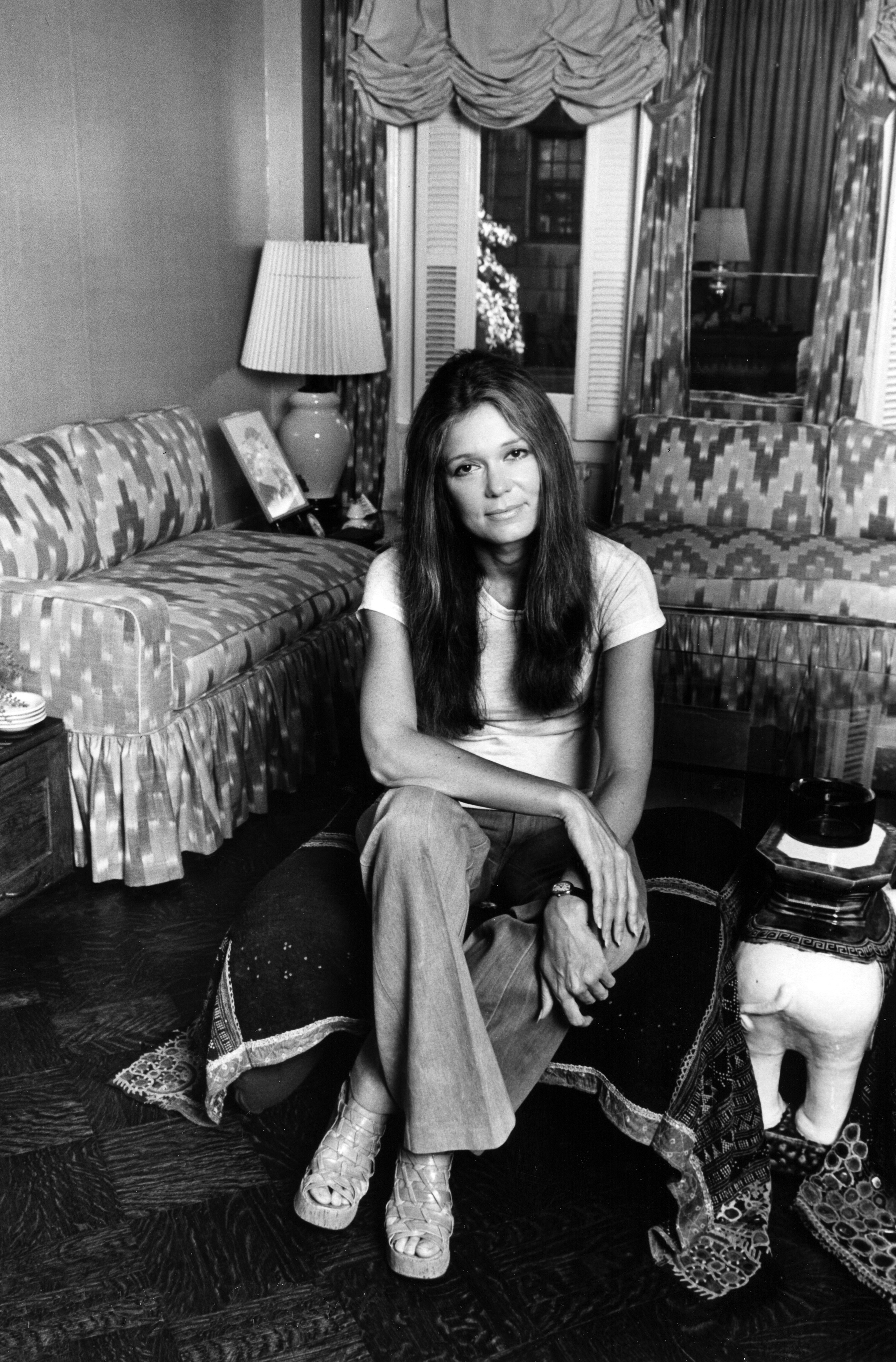 Gloria Steinem, photographed in her home, 1977 ©Lynn Gilbert